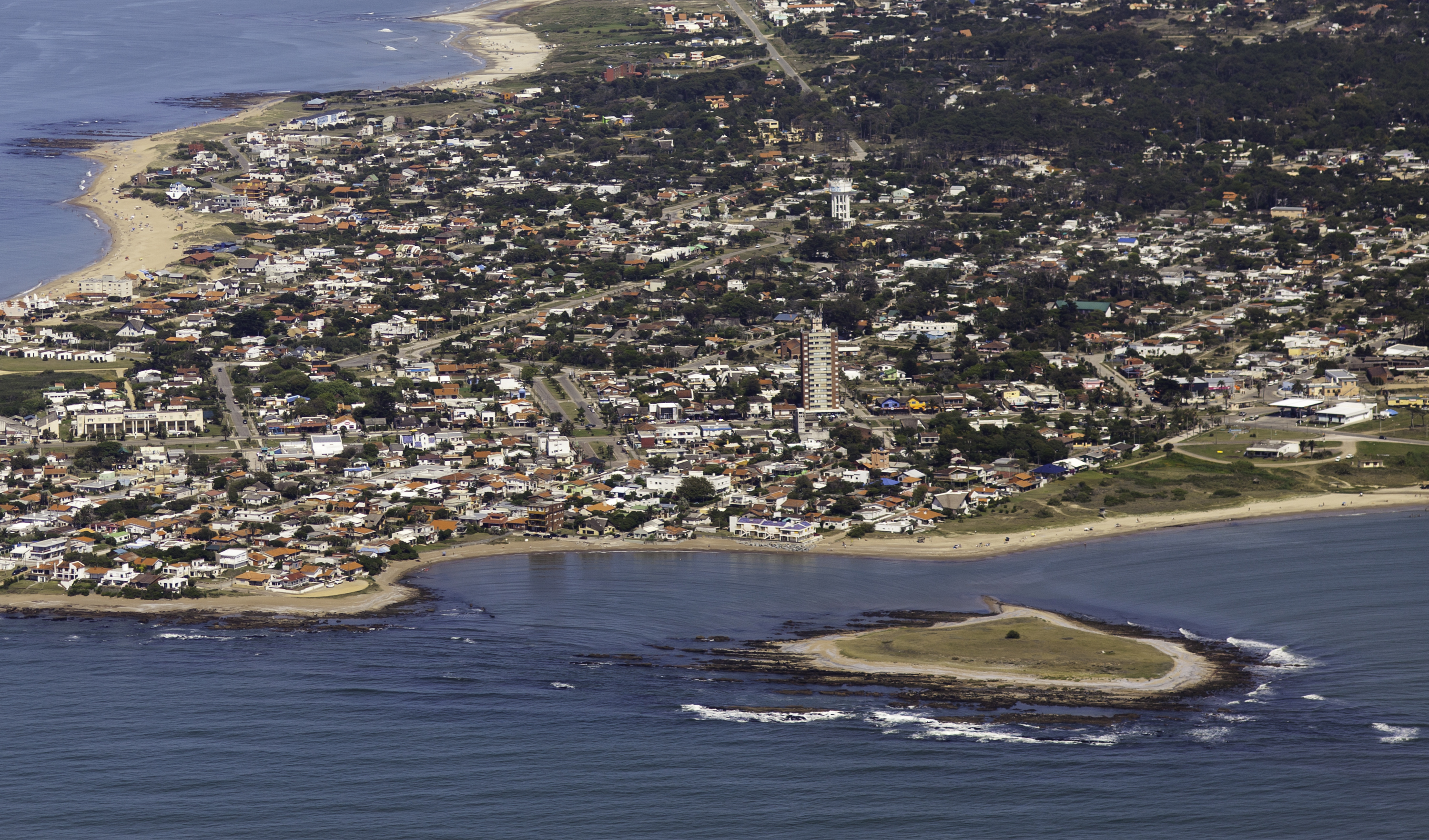 Rocha - Uruguay Camera: Canon EOS 5D Mark II Lens: Zeiss Makro-Planar T* 2/100 ZE 5 ISO: 100